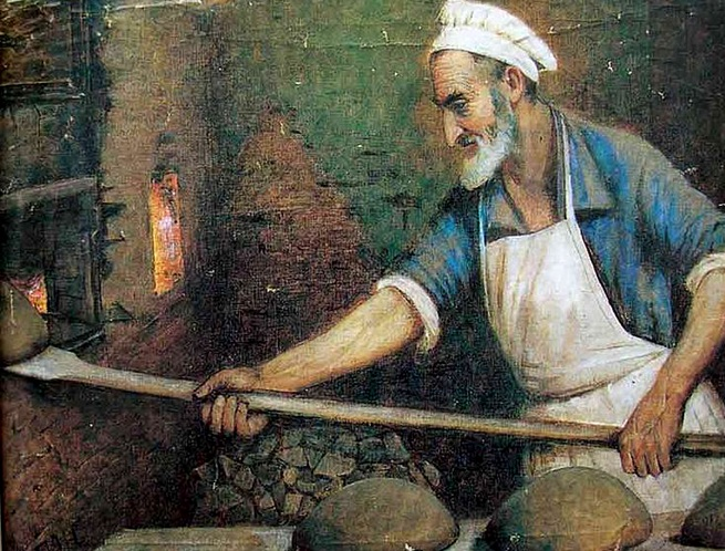 The baker